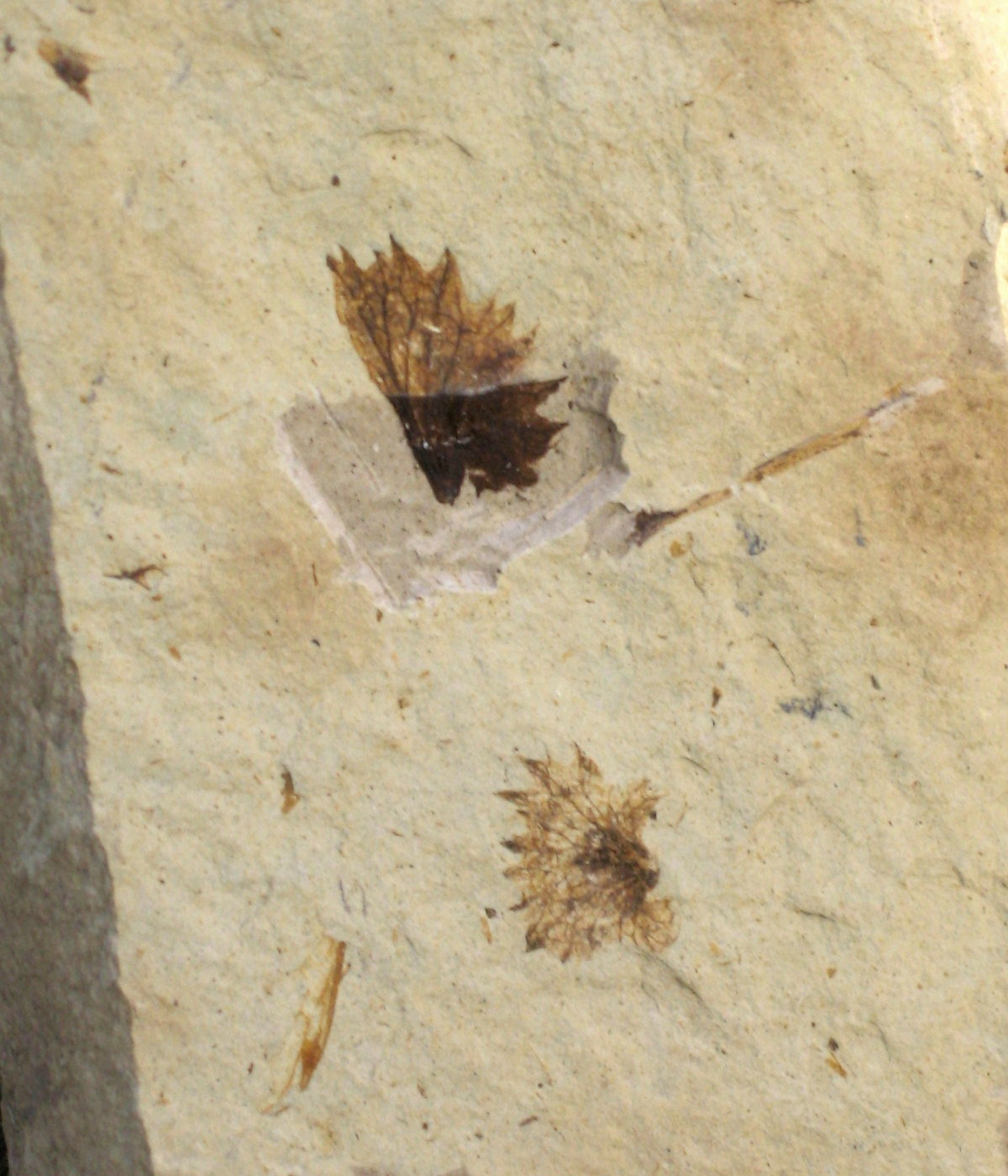 A pair of Palaeocarpinus barksdaleae fruits 1cm and .8cm tall respectively. Klondike Mountain Formation, Republic, Ferry County, Washington, USA, Eocene, Ypresian, 49million years old. Stonerose Interpretive Center Collection #